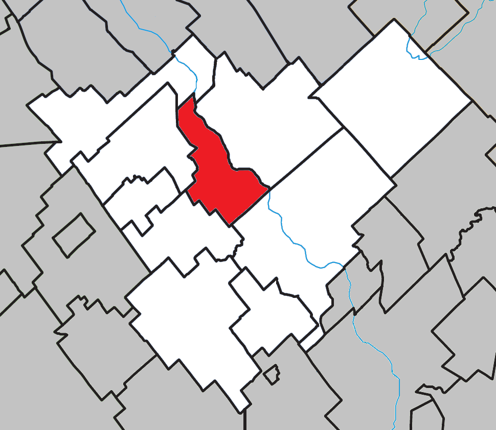 Location of Saint-Joseph-des-Érables, Quebec within Robert-Cliche Regional County Municipality.